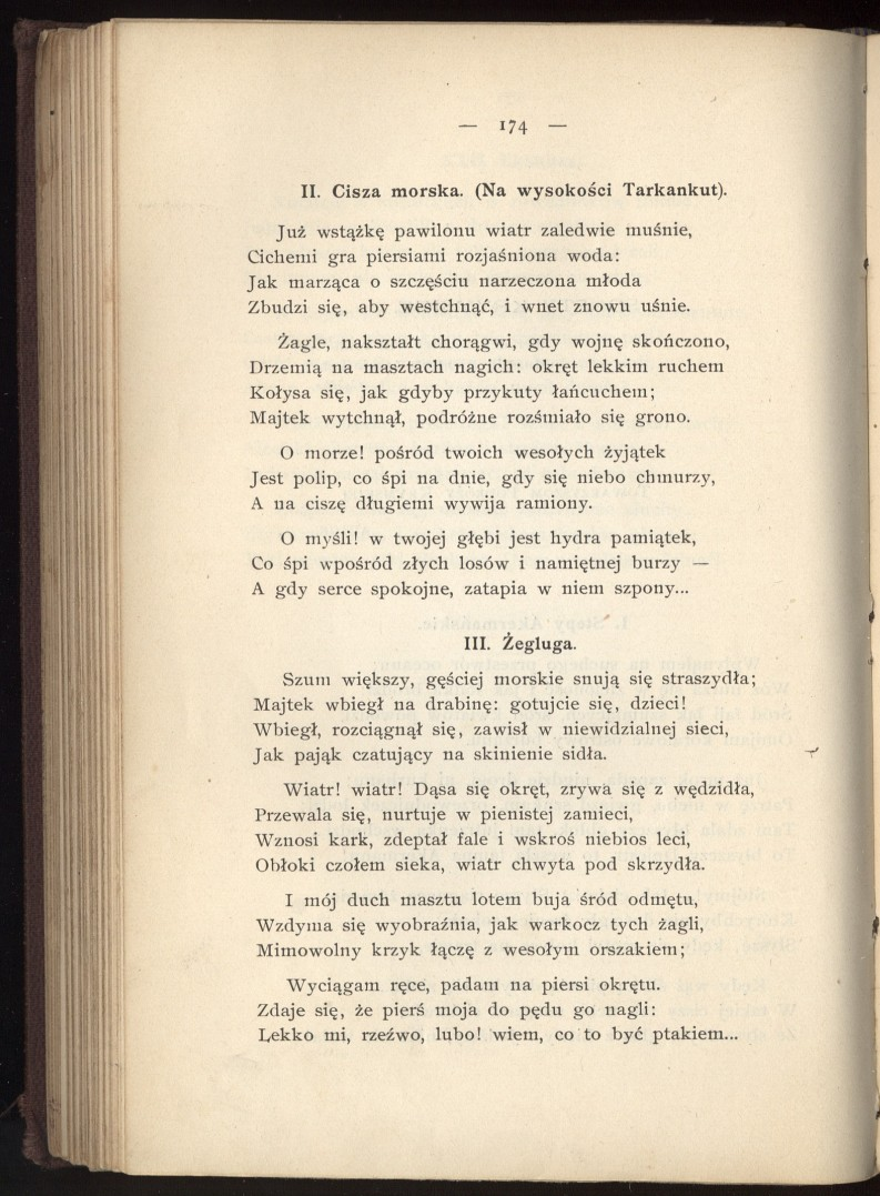 Poems by Adam Mickiewicz. V. 1. - Kraków; 1899; Adam Mickiewicz (1798-1855)